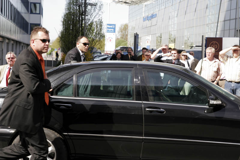 The Turkish prime minister Recep Tayyip Erdoğan inside the car, a special protection edition called S-Guard of Mercedes Benz. He's protected by two bodyguards, on April 16th, 2007 at Hannover Fair (Germany)